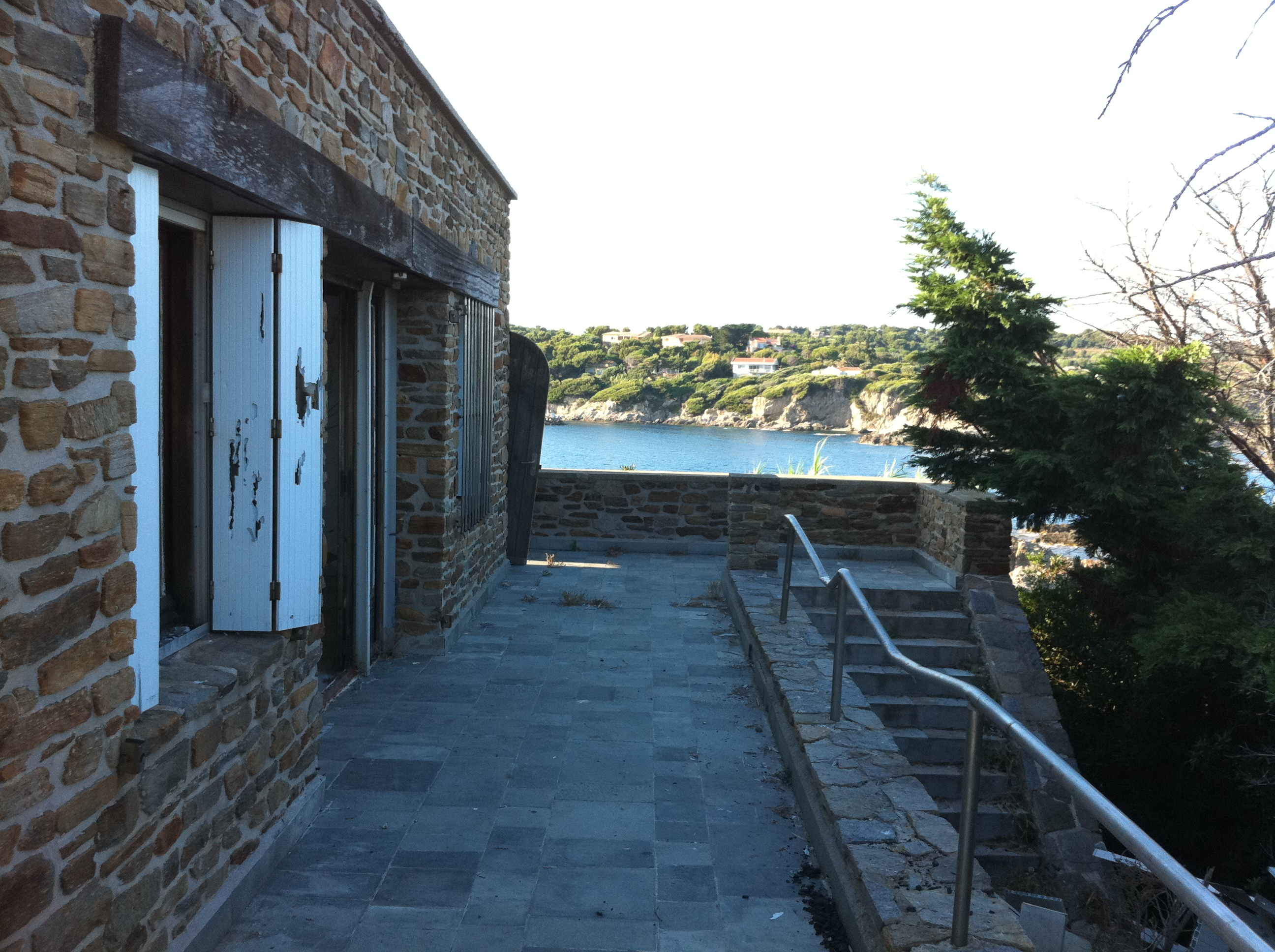 Litlle house from petit ribaud